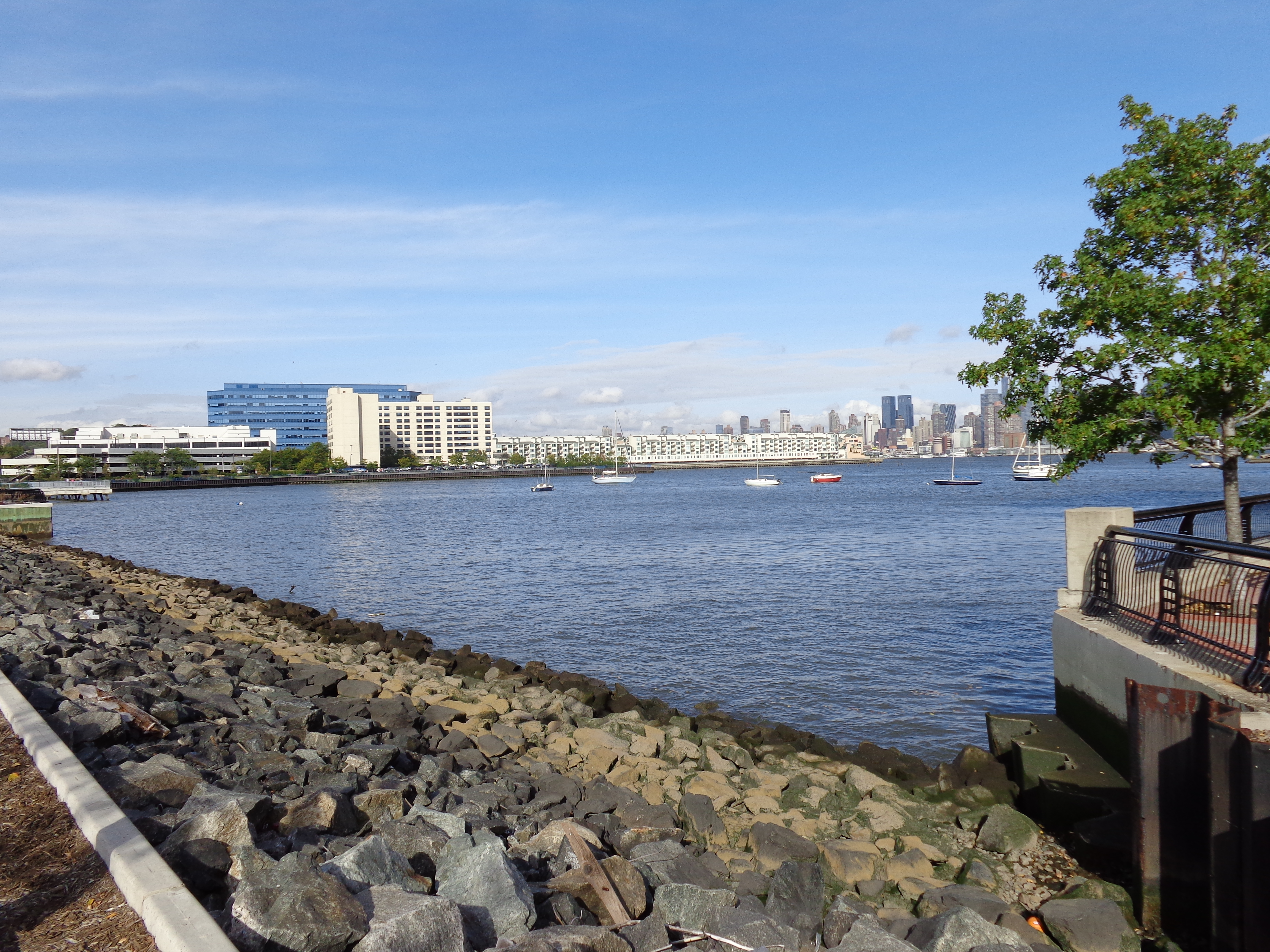 Weehawken Cove looking northeast to Lincoln Harbor